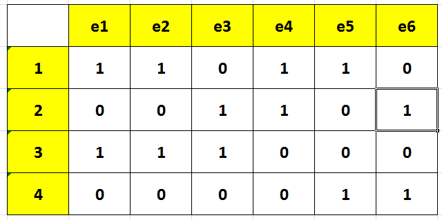 Ma trận liên thuộc G